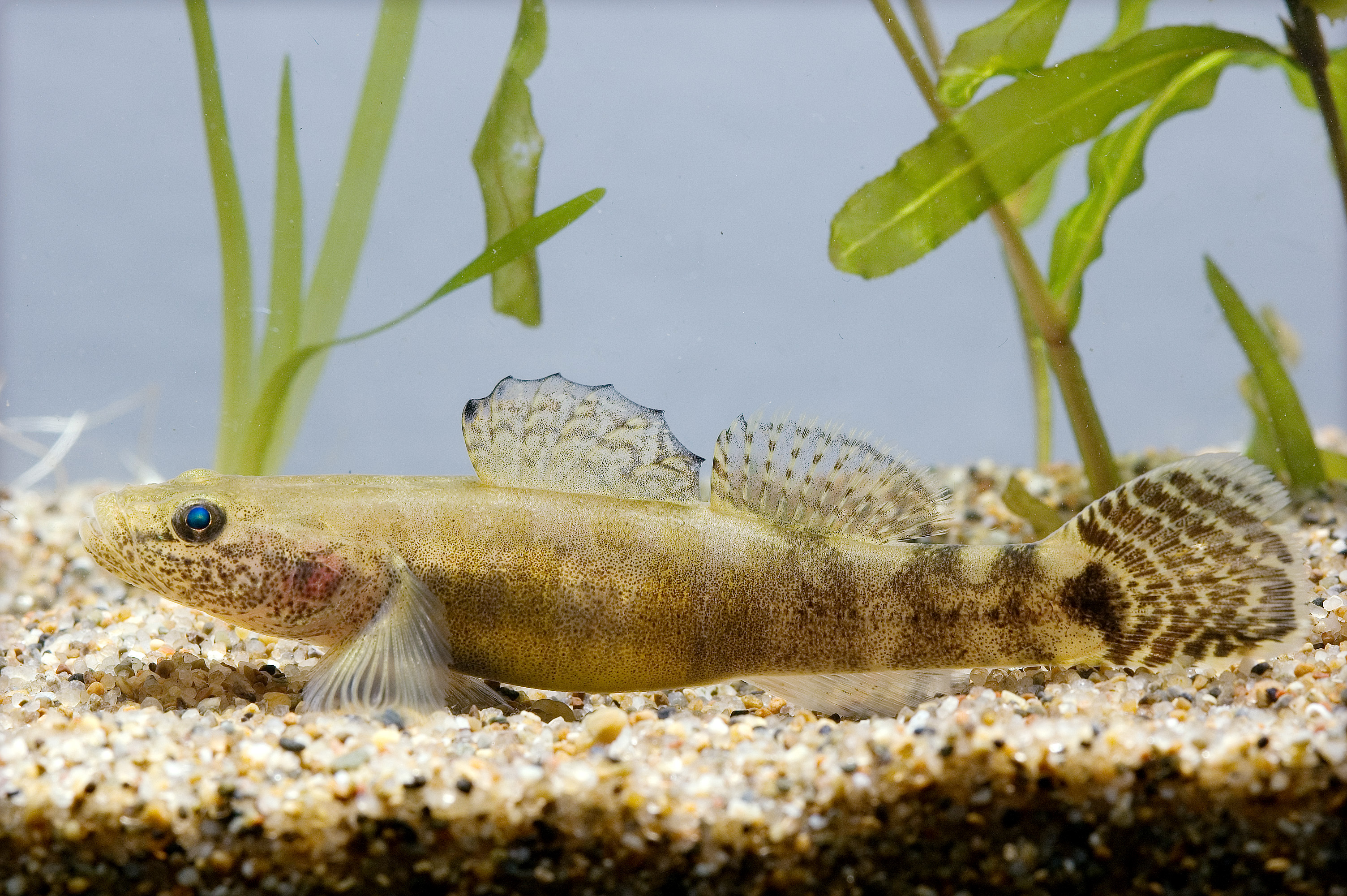 Sumiukigori, Gymnogobius petschiliensis, from Hamamatsu, Shizuoka, Japan.